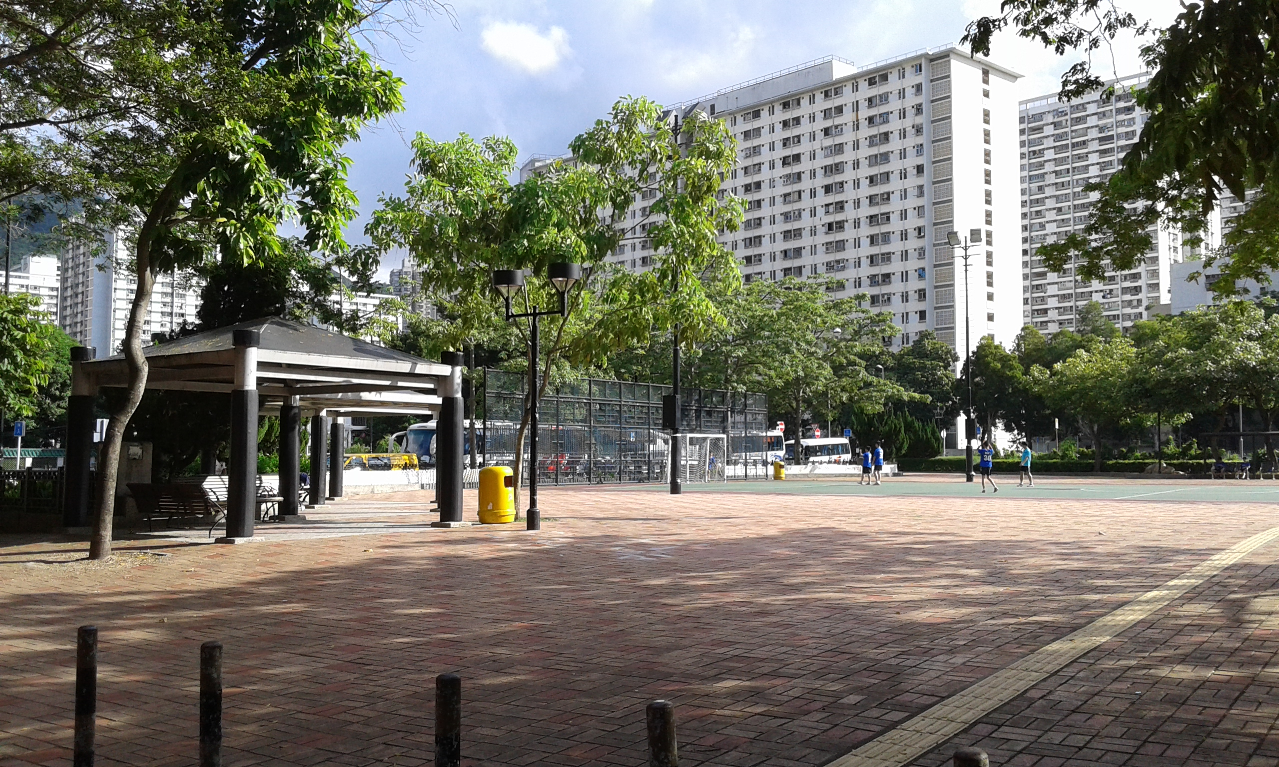 Chui Tin Street Soccer Pitch